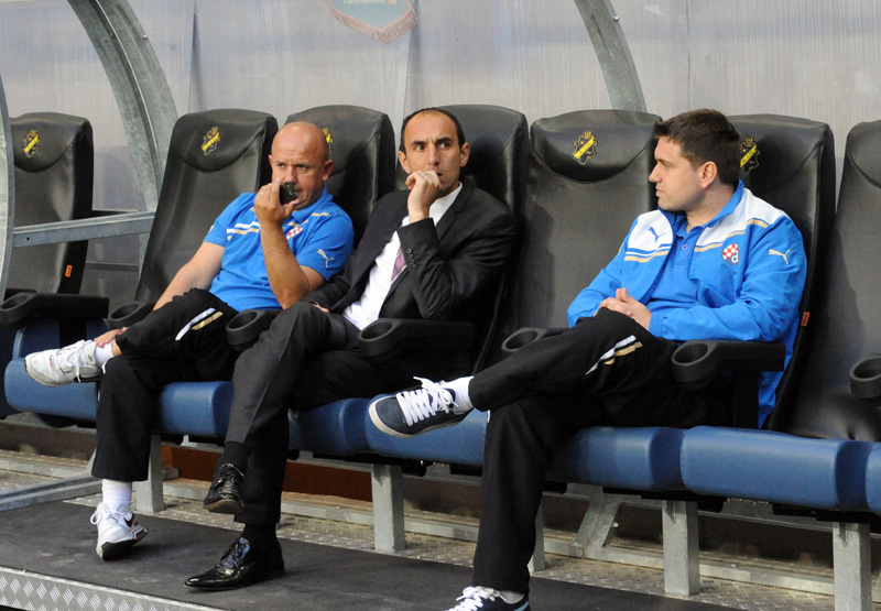 Krunoslav Jurčić and two other staffmembers of Dinamo Zagreb at Friends Arena in the Ivan Turina Charity Game